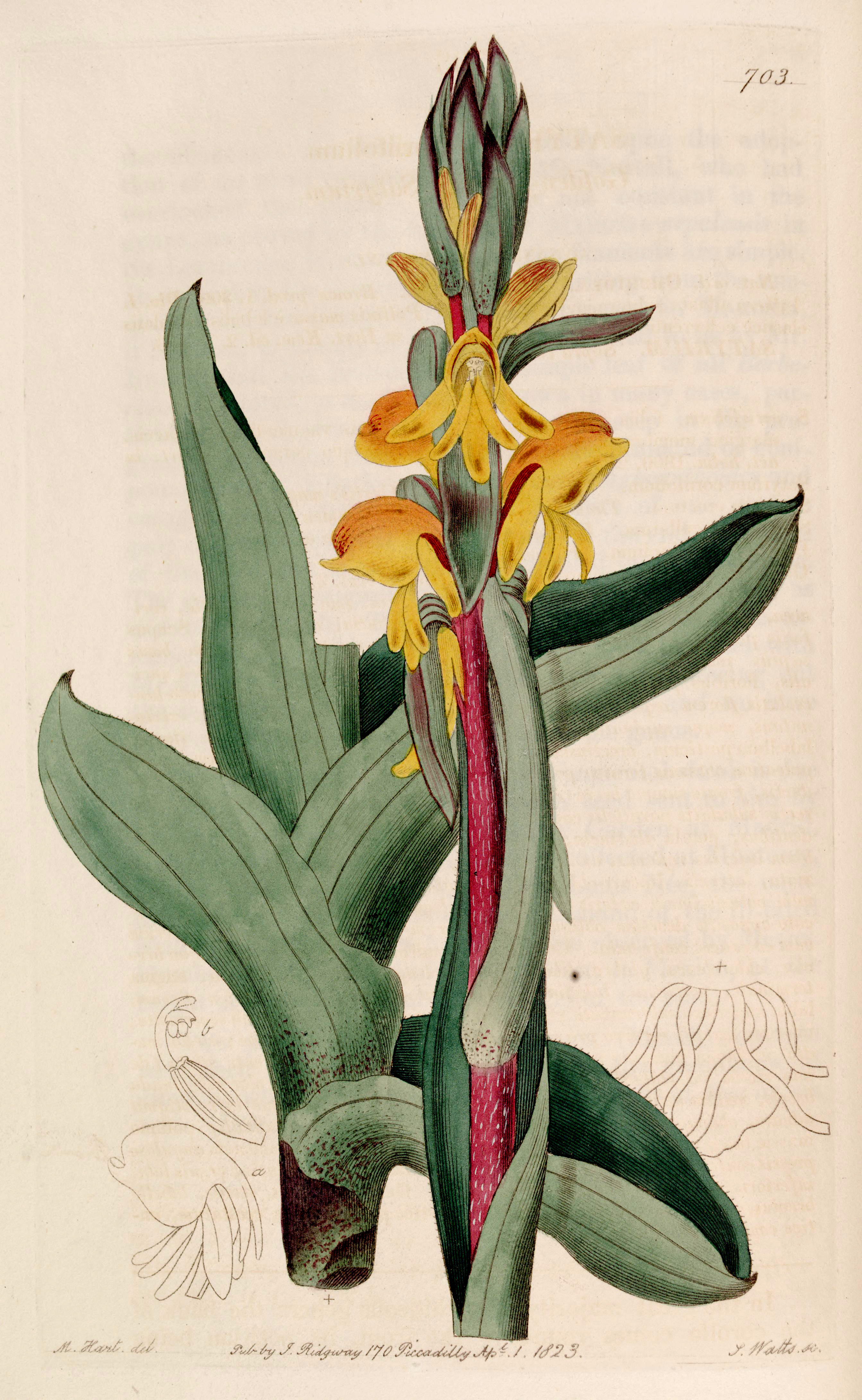 Illustration of Satyrium coriifolium